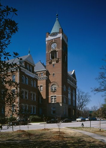 Tillman Hall (Winthrop University) cropped